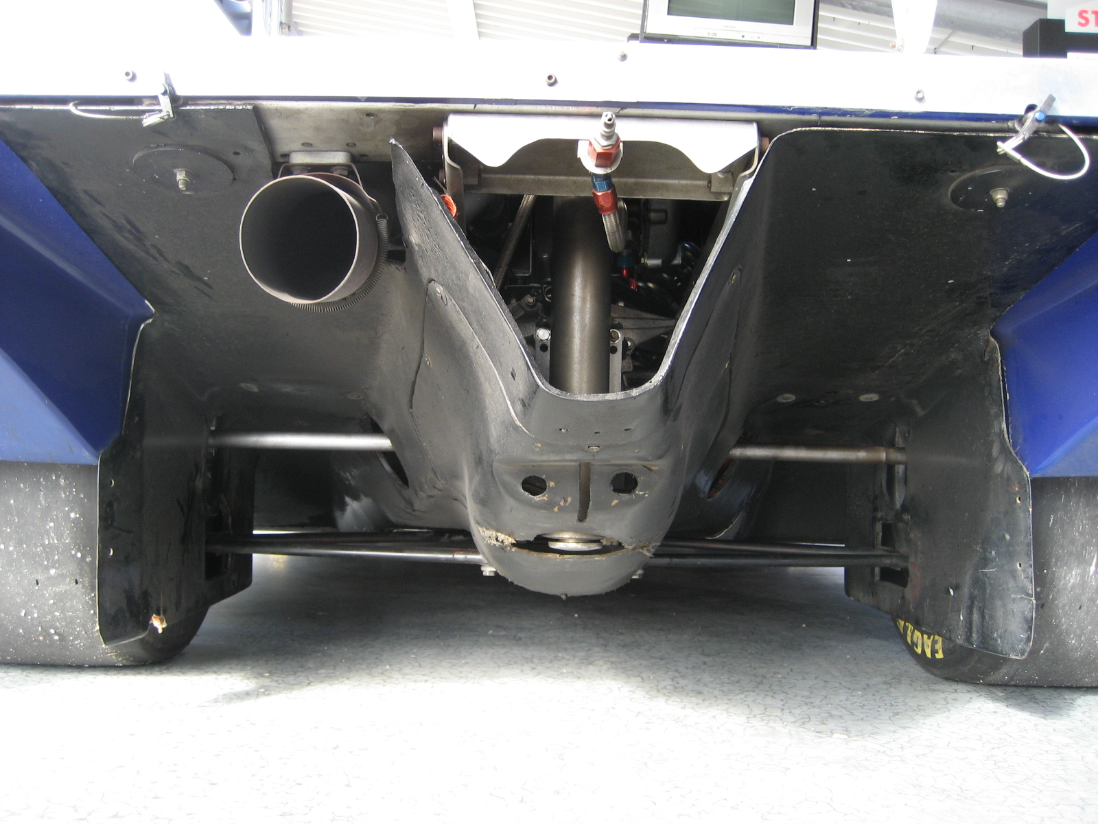 The rear diffuser of Porsche 962 chassis #119.